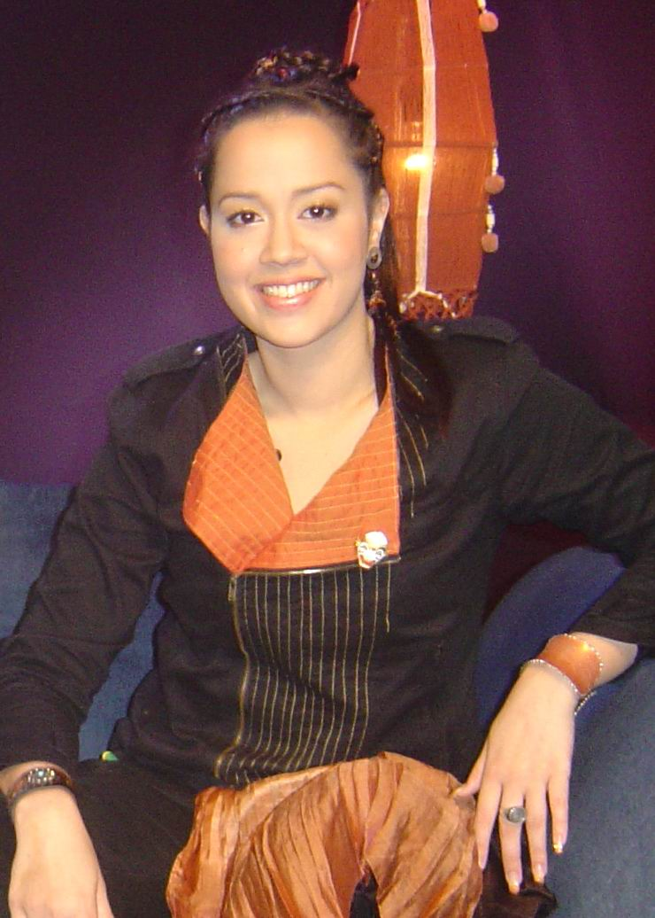 Lanna Cummins at MTV